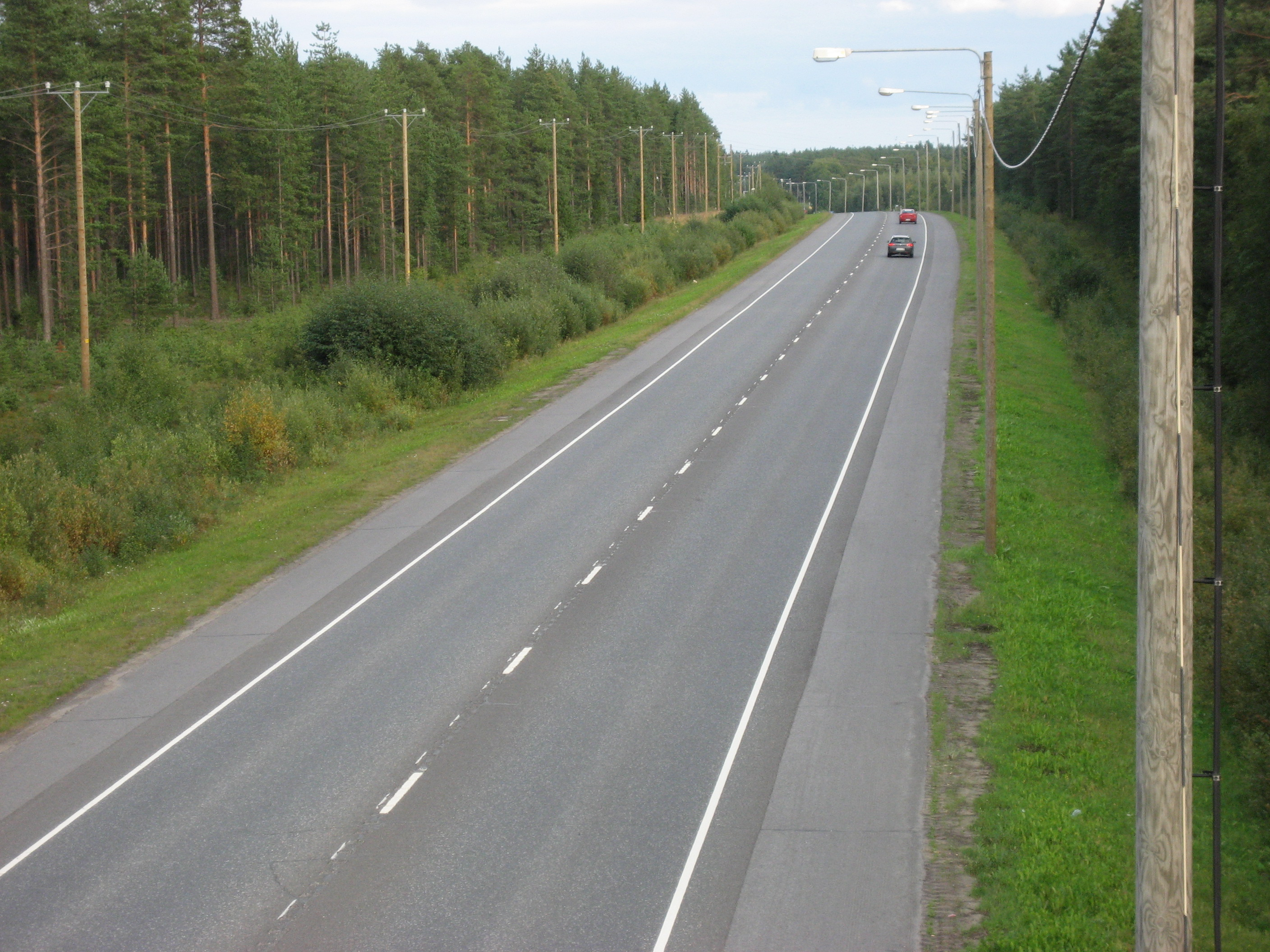 National road 22 in Maikkula, Oulu, Finland. Picture has been taken from the Iinatinsilta bridge, looking east.